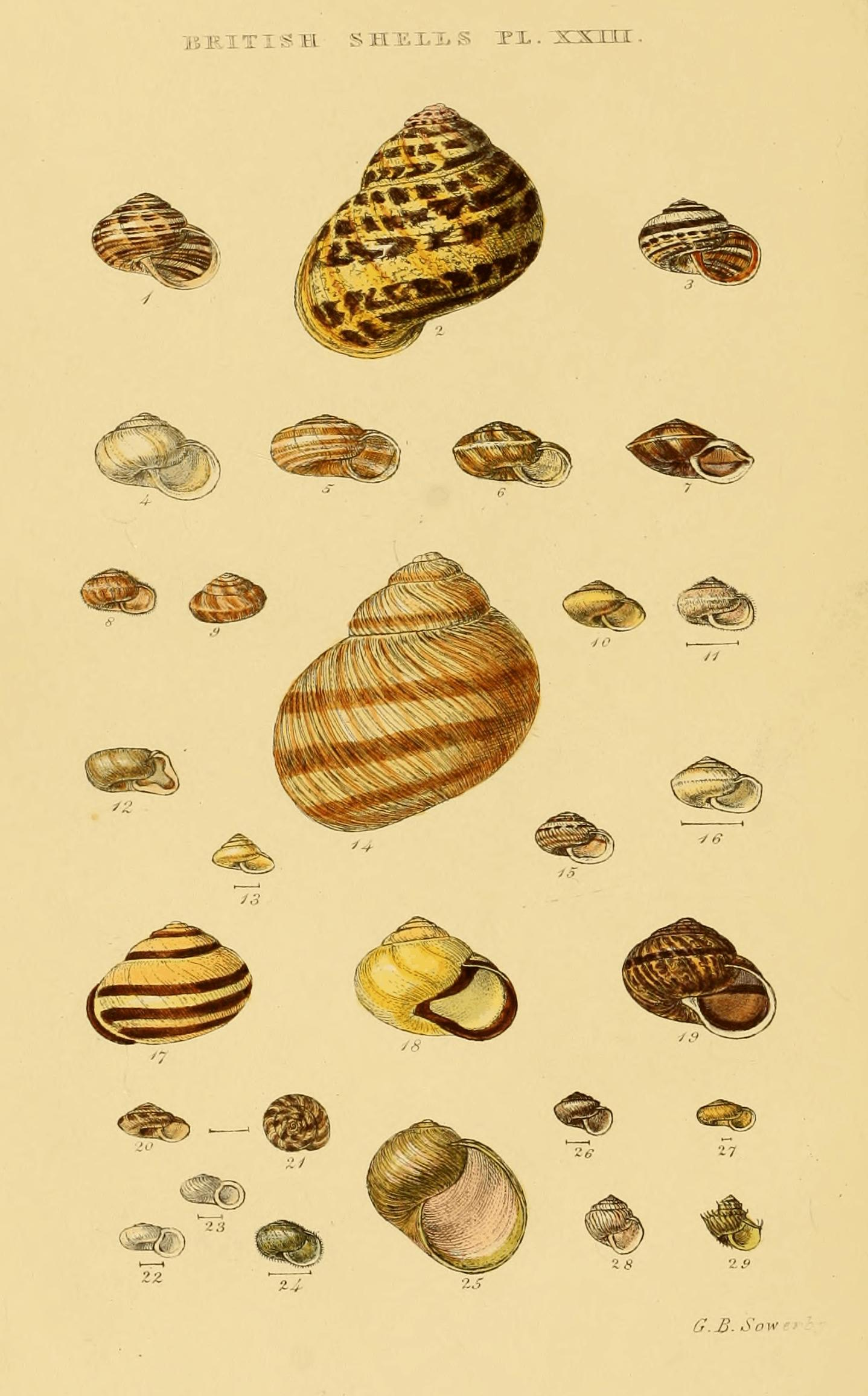 Illustrated Index of British Shells. Plate XXIII. Fig.Name in textAccepted name (2013)1Helix pisana MüllerTheba pisana2Helix aspersa MüllerHelix aspersa3Helix virgata CostaCernuella virgata4Helix cantiana MontaguMonacha cantiana5Helix ericetorum MüllerHelicella itala6Helix rufescens PennantArianta arbustorum7Helix lapicida LinnaeusHelicigona lapicida8, 9Helix hispida LinnaeusTrochulus hispidus10Helix fusca MontaguZenobiella subrufescens11Helix sericea DraparnaudTrochulus sericeus12Helix obvoluta MüllerHelicodonta obvoluta13Helix fulva MüllerEuconulus fulvus14Helix pomatia LinnaeusHelix pomatia15Helix caperata MontaguCandidula intersecta16Helix carthusiana MüllerMonacha cartusiana17, 18Helix nemoralis LinnaeusCepaea nemoralis19Helix arbustorum LinnaeusArianta arbustorum20, 21Helix rotundataDiscus rotundatus22, 23Helix pulchella MüllerVallonia pulchella24Helix revelata FérussacPonentina revelata25Helix apertaHelix aperta26Helix umbilicata MontaguPyramidula umbilicata27Helix pygmæa DraparnaudPunctum pygmaeum28Helix lamellata JeffreysSpermodea lamellata29Helix aculeata MüllerAcanthinula aculeata